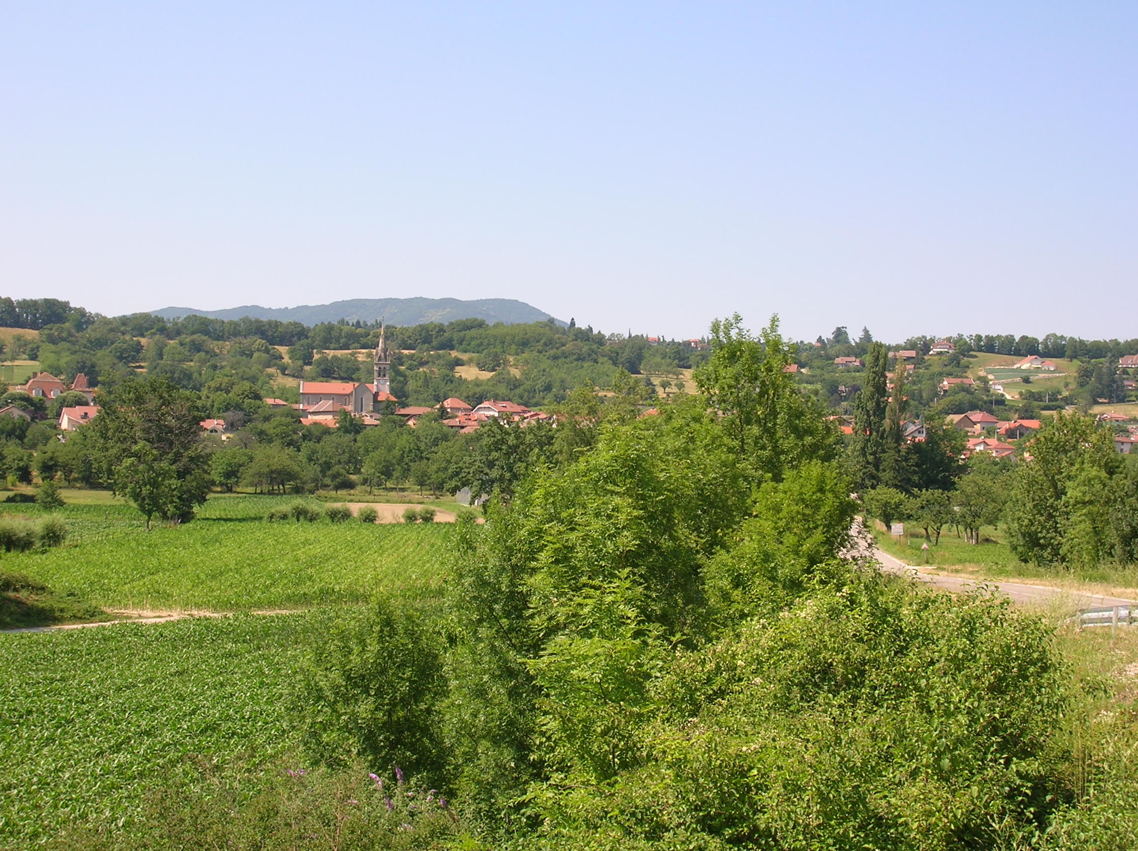 my own photograph